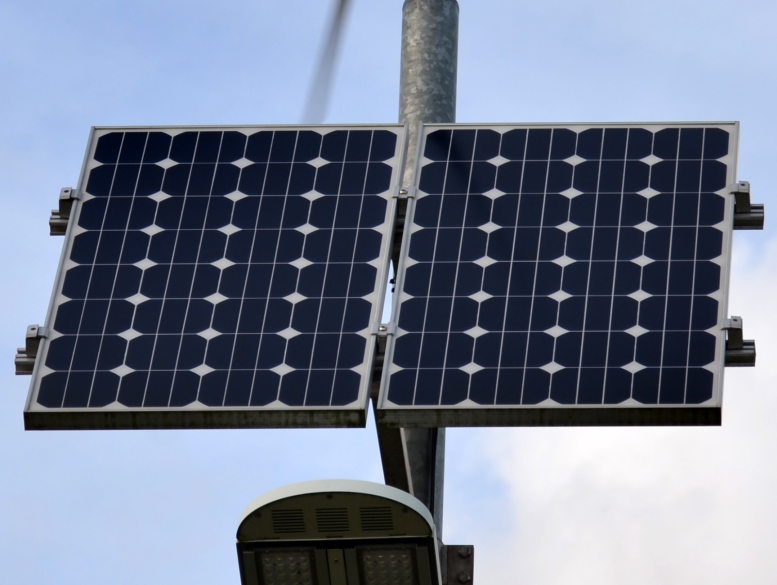 Solar PV panel consiting of two modules made of monocrystalline silicon solar cells (mono-Si)